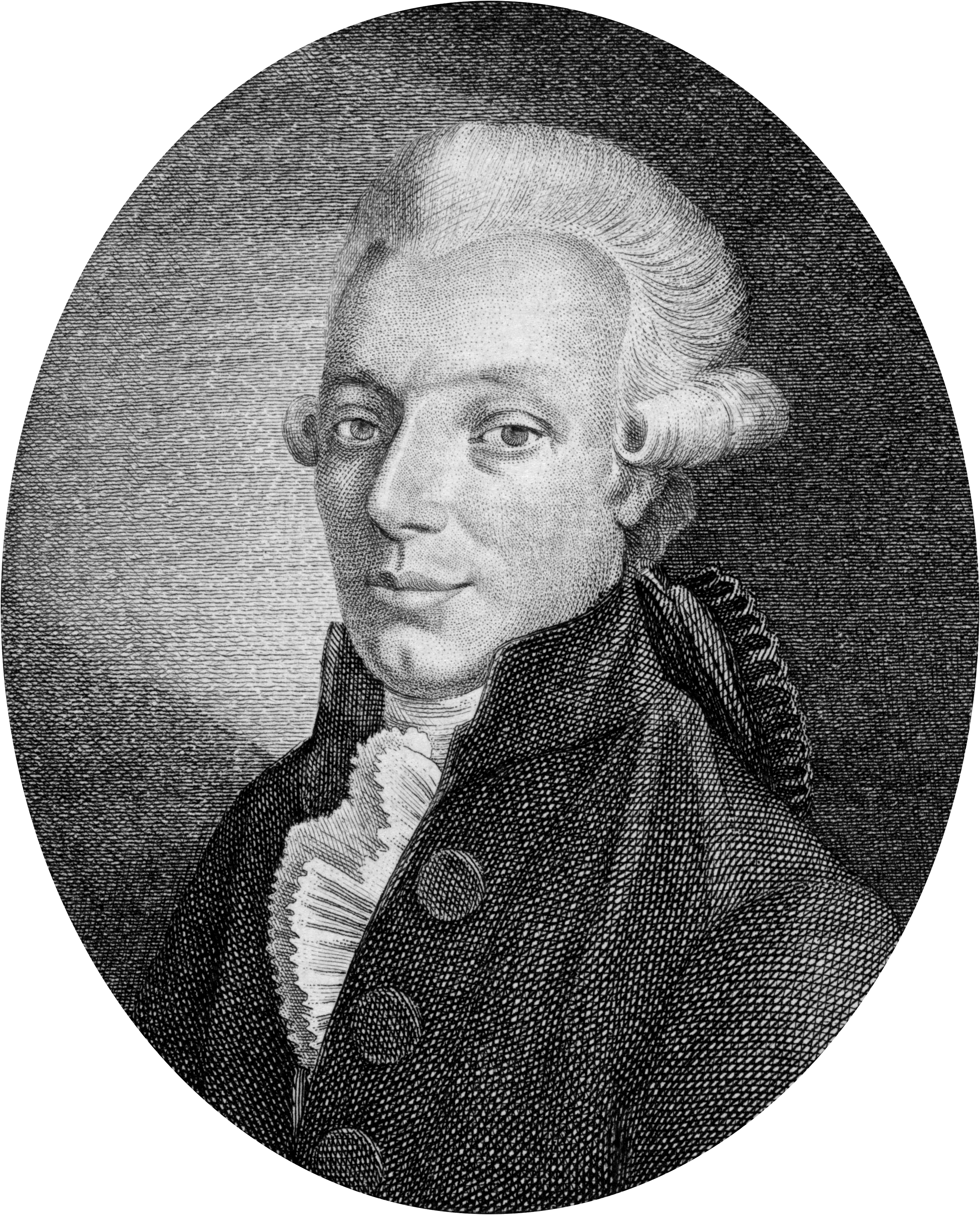 Pieter Paulus (1753-1796), Dutch attorney, judge-advocate and politician. Ideologist of the Patriot movement in the Netherlands. Founder of the Dutch democracy and national unity. Chairman of the Provisional Representatives of the People of Holland. Chairman of the First National Assembly.